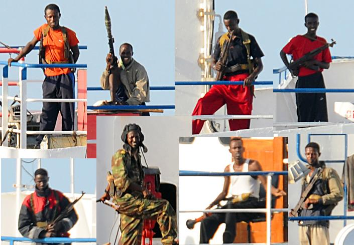 I have taken an image of the MV Faina with the crew and cropped out pictures of Somali pirates, and made a montage of them. I will license my edits under the same license that applies to an original work of the US Navy, which is Public Domain.